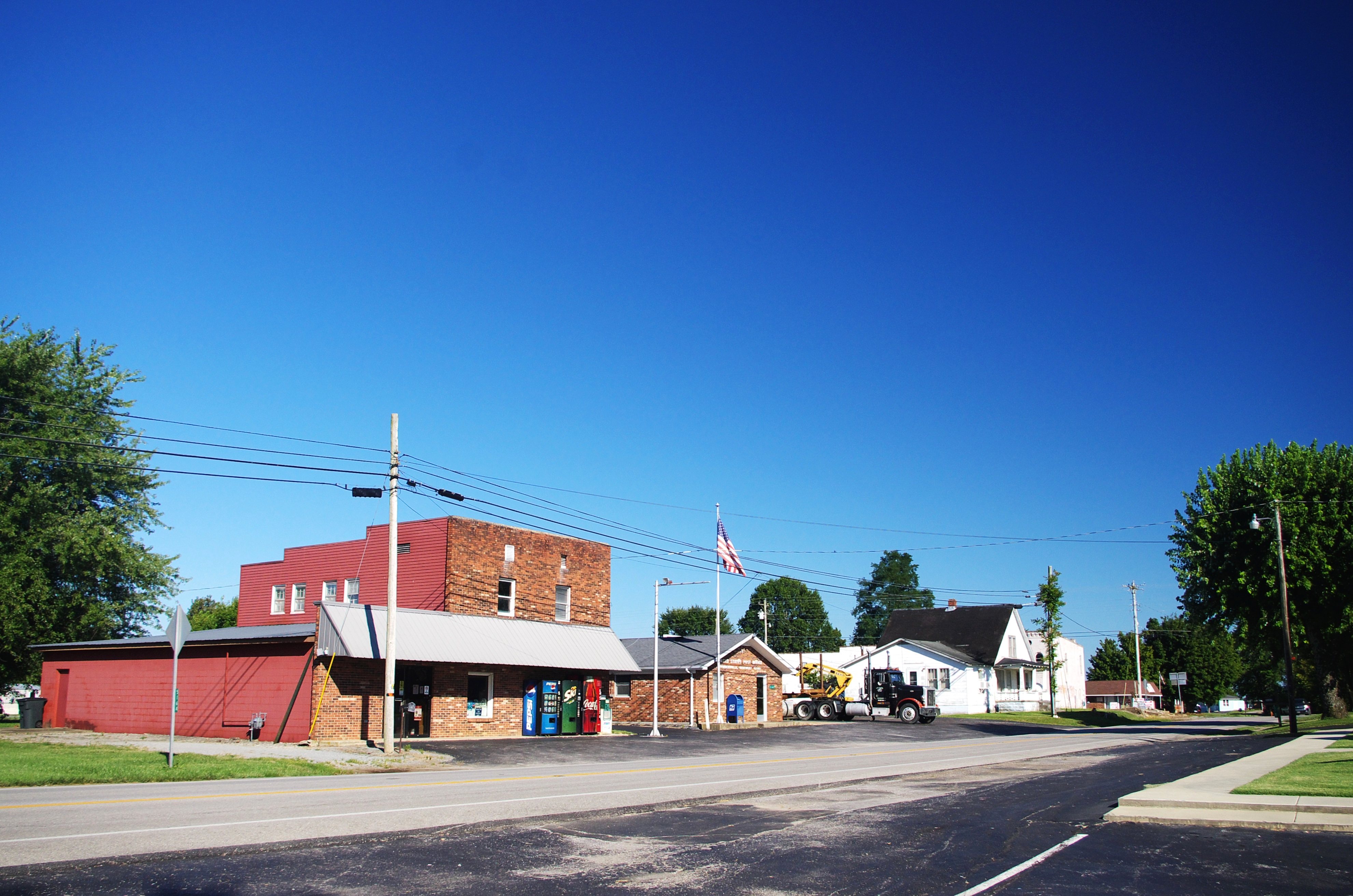 Buildings along Kentucky Route 61 in Summersville, Kentucky, United States.